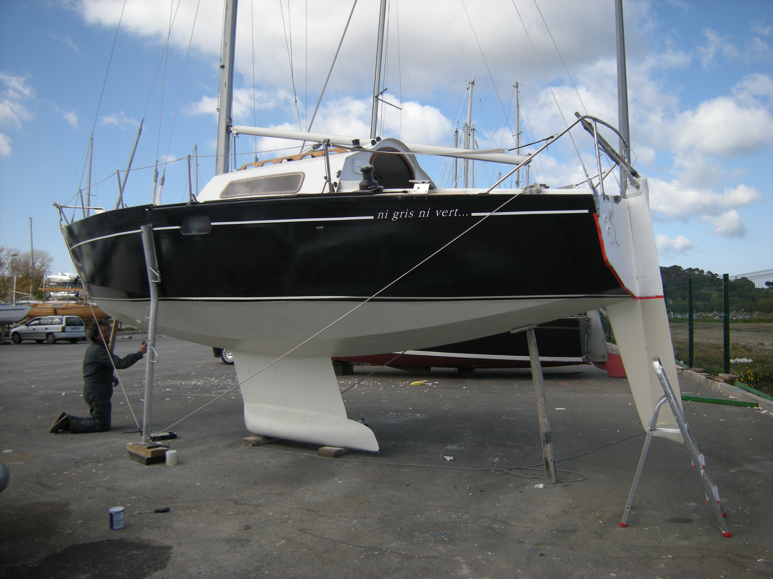 Armagnac, one design yacht Ni gris ni vert, like in the song Comme à Ostende, lyrics Jean-Roger Caussimon, music Léo Ferré